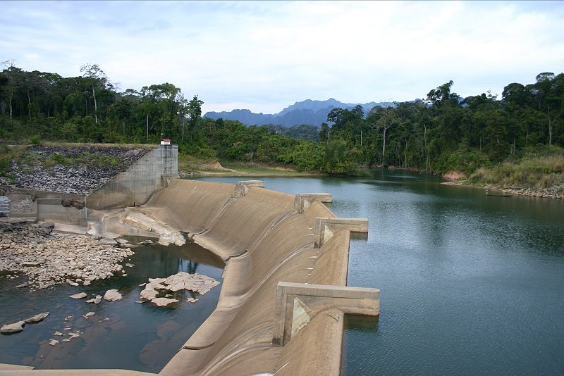 Theun Hinboun Dam Wall, Central Southern Laos. Photographer: Mr Laurence McGrath, uploaded under GFDL license. Image taken January '05 in Laos.